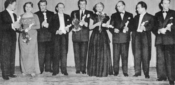 Winners of the Jussi Award 1951. From right: Matti Kassila, Aarne Tarkas, Erik Blomberg, Emma Väänänen, Tapio Vilpponen, Harry Bergström, Hannes Häyrinen, Salli Karuna and Lasse Pöysti.